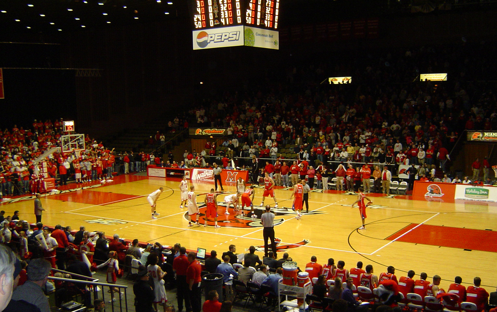 game played on 11.28.07. The University of Dayton Flyers defeated the Miami Redhawks after being down by 21 points in the first half. Brian Roberts hit a 3 point shot with 4.2 seconds to go put the Flyers ahead for the first time the entire game. Michael Bramos had a game high 36 for Miami.